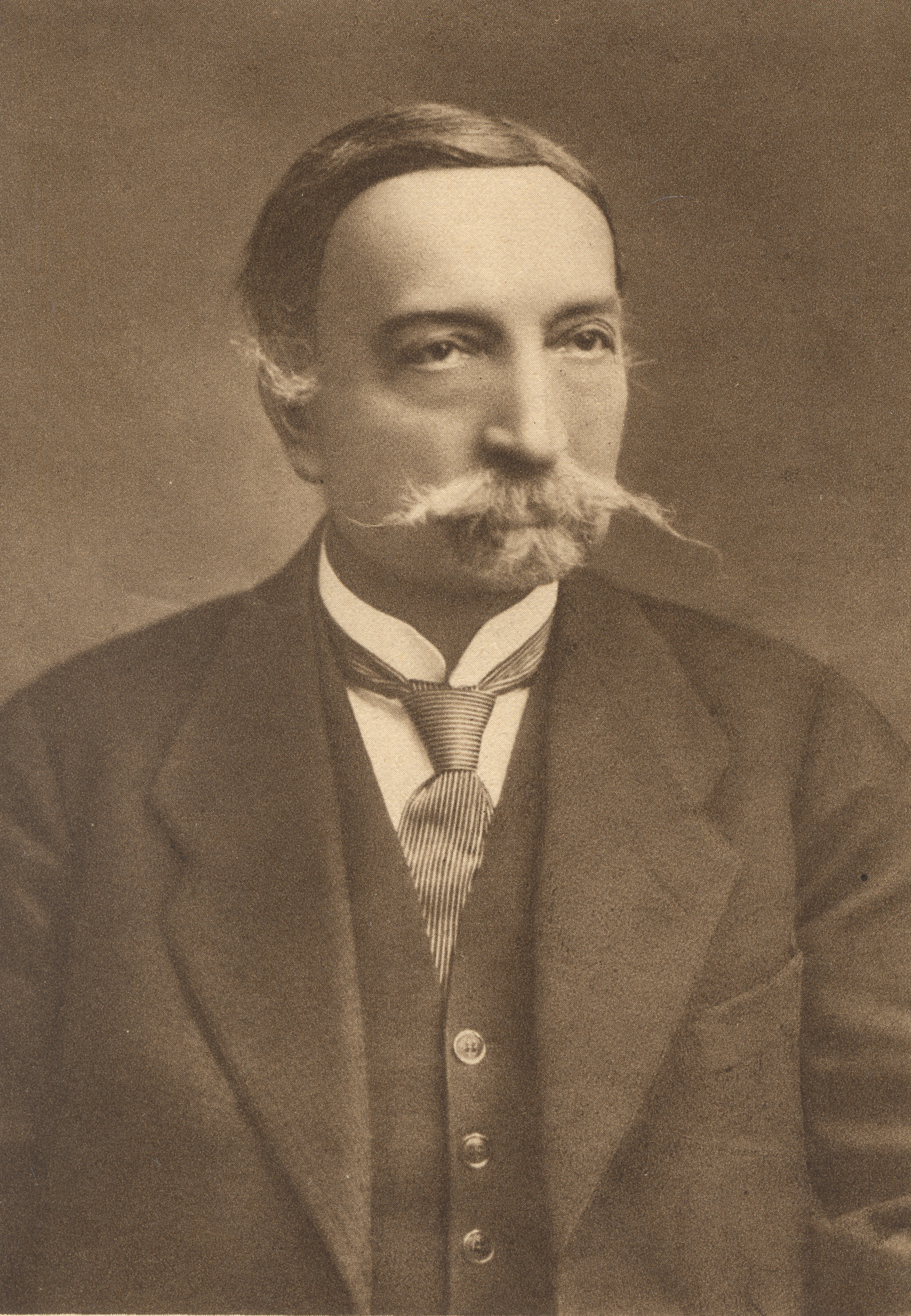 Edward Woynillowicz (1847–1928), leader of Minsk agricultural society